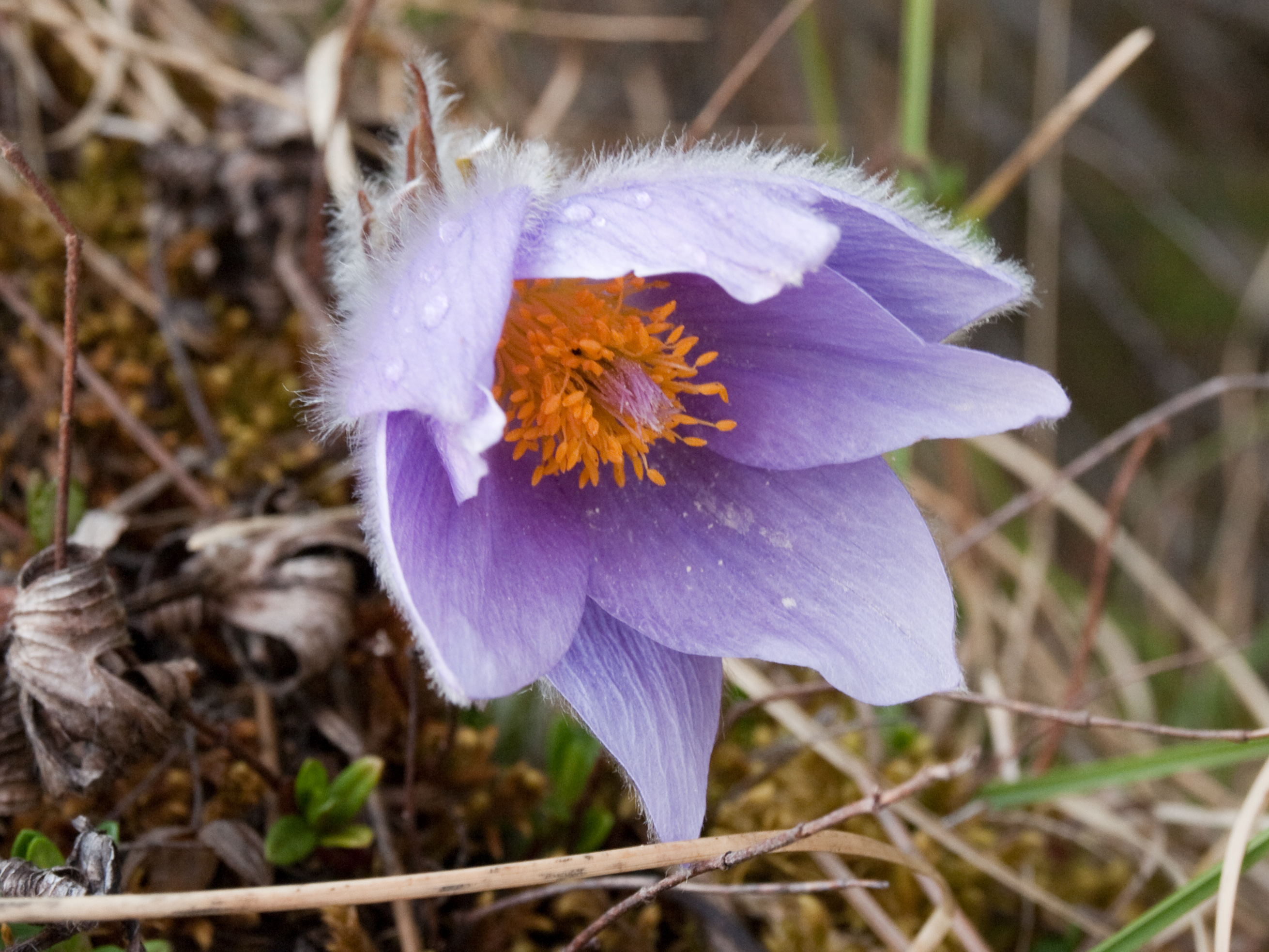 Pulsatilla slavica, Western Tatras